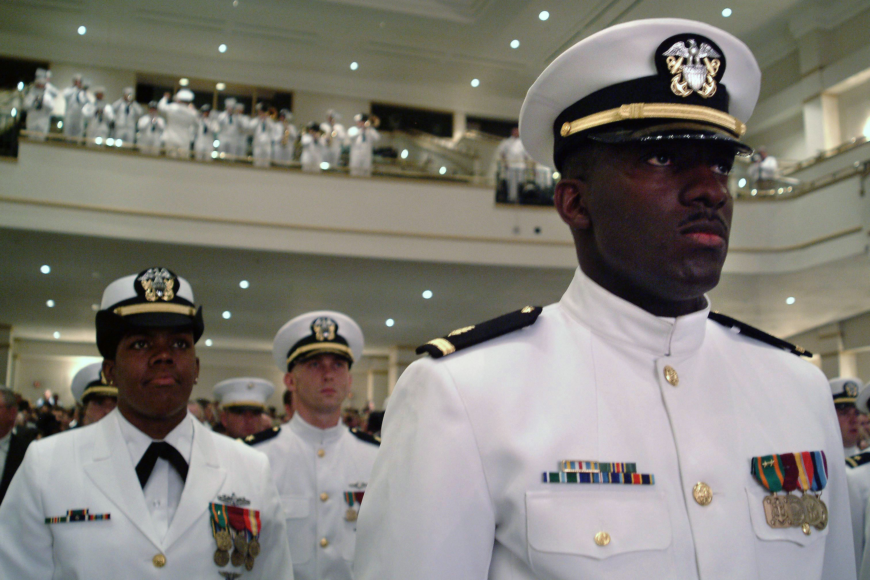 Norfolk, Va. (May 8, 2004) - Newly graduated and commissioned officers of the Naval Reserve Officers Training Corps (NROTC) Unit Hampton Roads stand at attention as they are applauded during the spring commissioning ceremony held at Norfolk State University. The Hampton Roads unit was the first to offer complete NROTC programs at three separate institutions to include Hampton University, Norfolk State University and Old Dominion University. Admiral Vern Clark, Chief of Naval Operations (CNO), was the guest speaker.